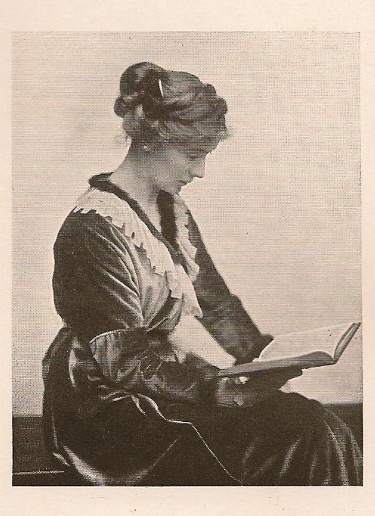 Photo included in publicity material for Elizabeth Clark - created c 1915